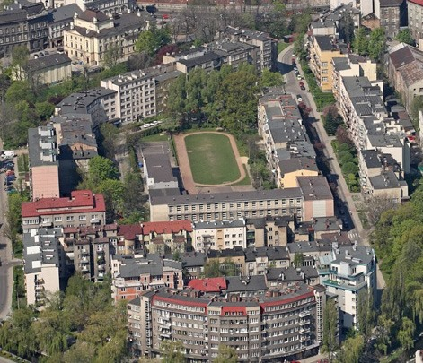 Aerial photography of Aleje Sułkowskiego - southeast part of Dolne Przedmieście, historical district of Bielsko-Biała, Poland.